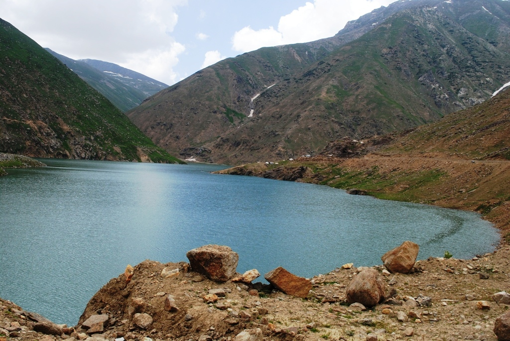 A beautiful scene of Lulusar Lake